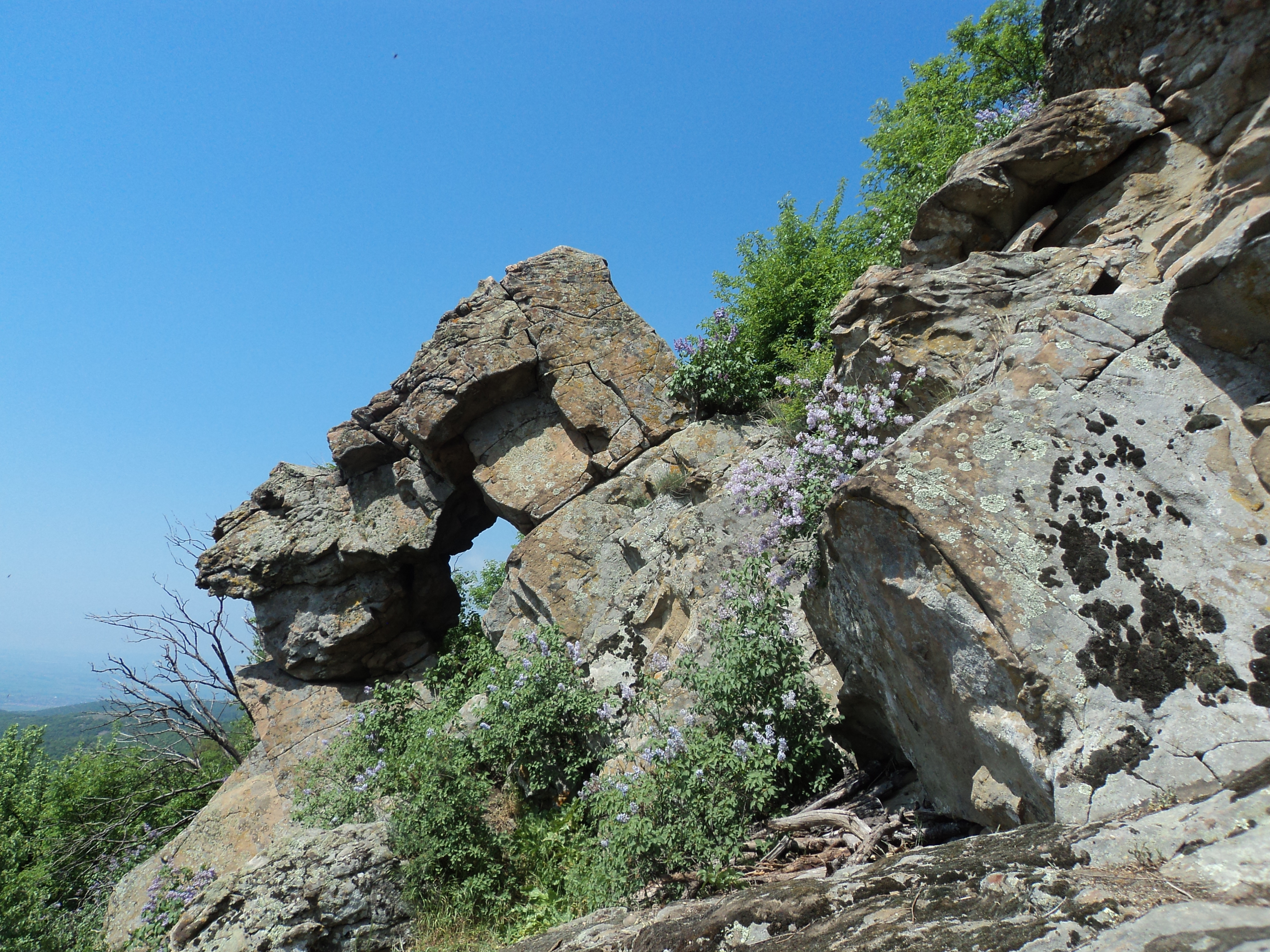 Пробитата канара в местността "Грамадите"